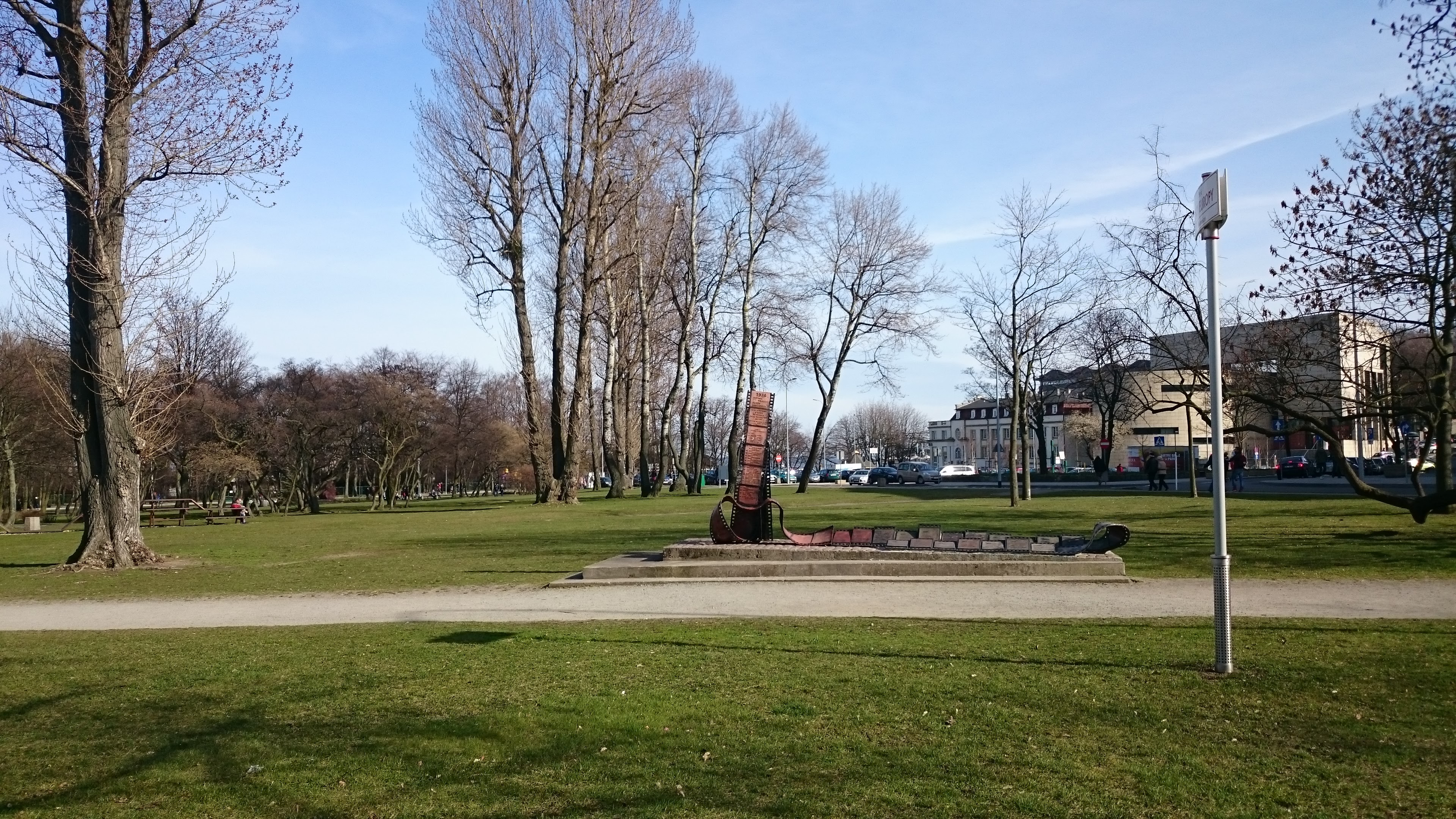 Park Rady Europy (Europe Council Park) in Gdynia, Poland